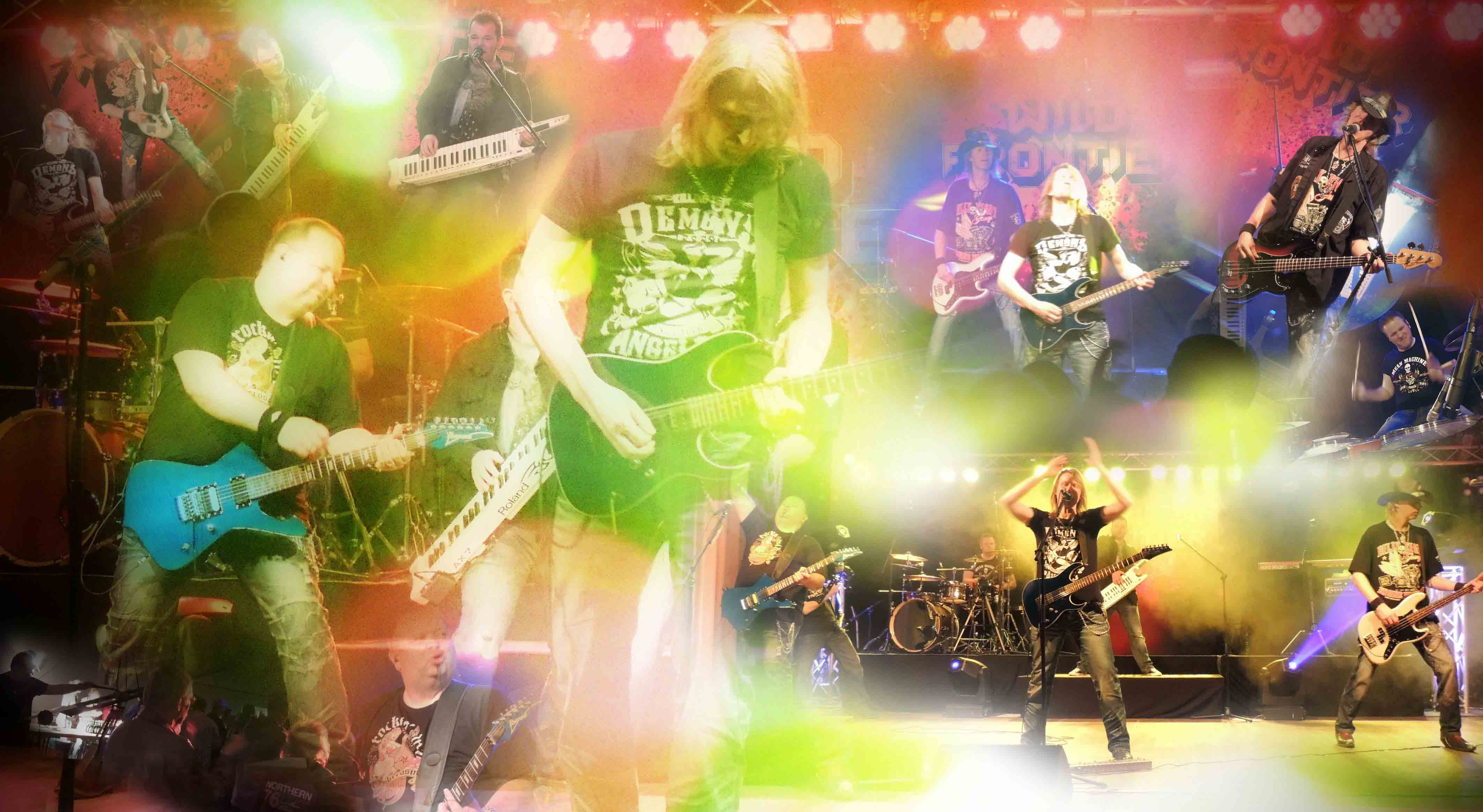 Wild Frontier 2015